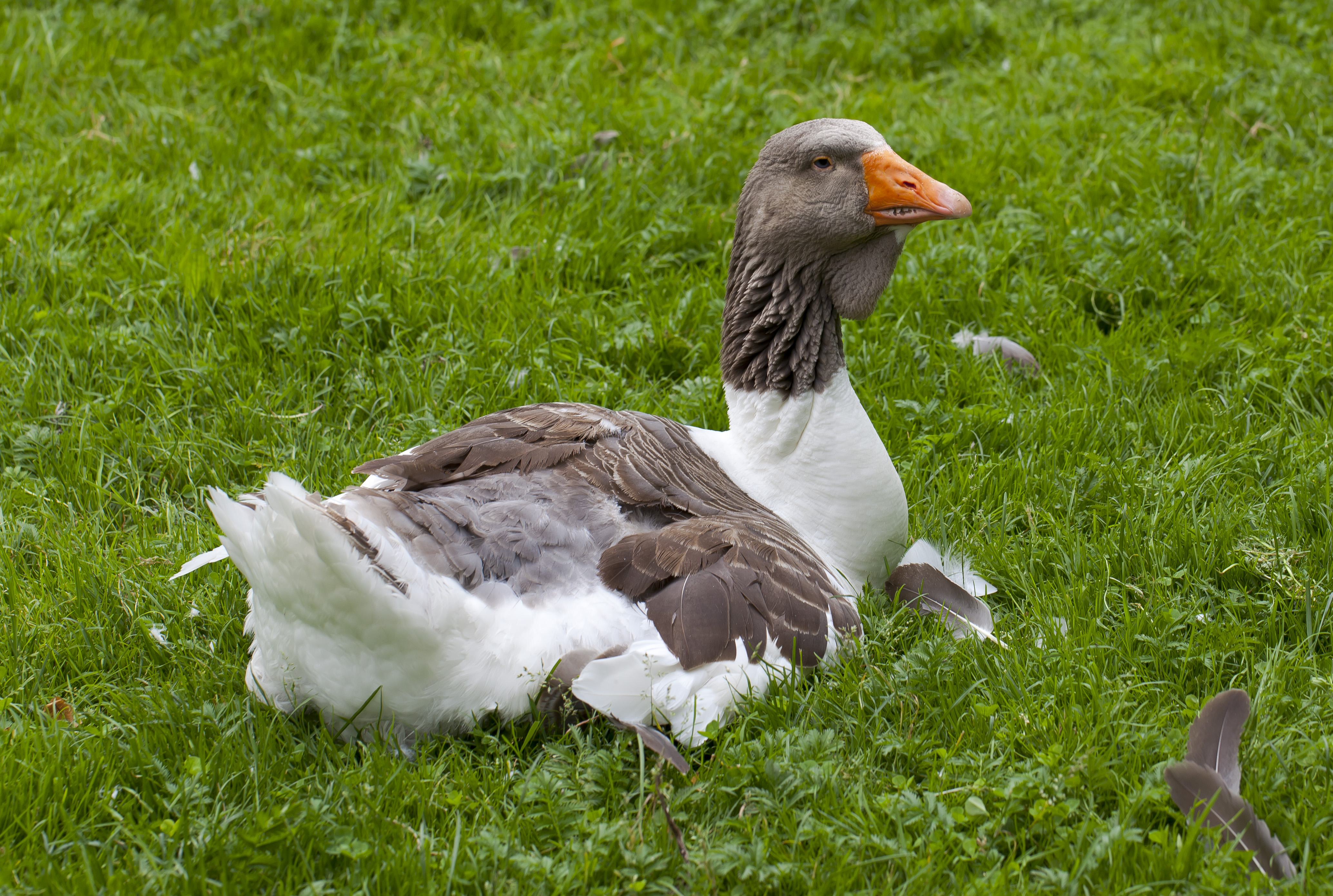 Greylag Goose (Anser anser), Tierpark Hellabrunn, Munich, Germany